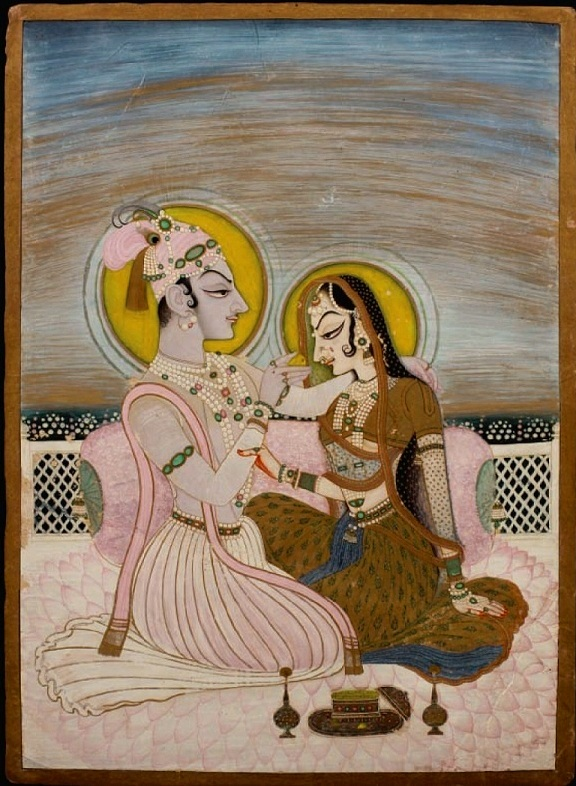 Attributed to Nihal Chand. Savant Singh and Bani Thani as Krishna and Radha. Kishangarh, ca. 1760. Madison Avenue Gallery